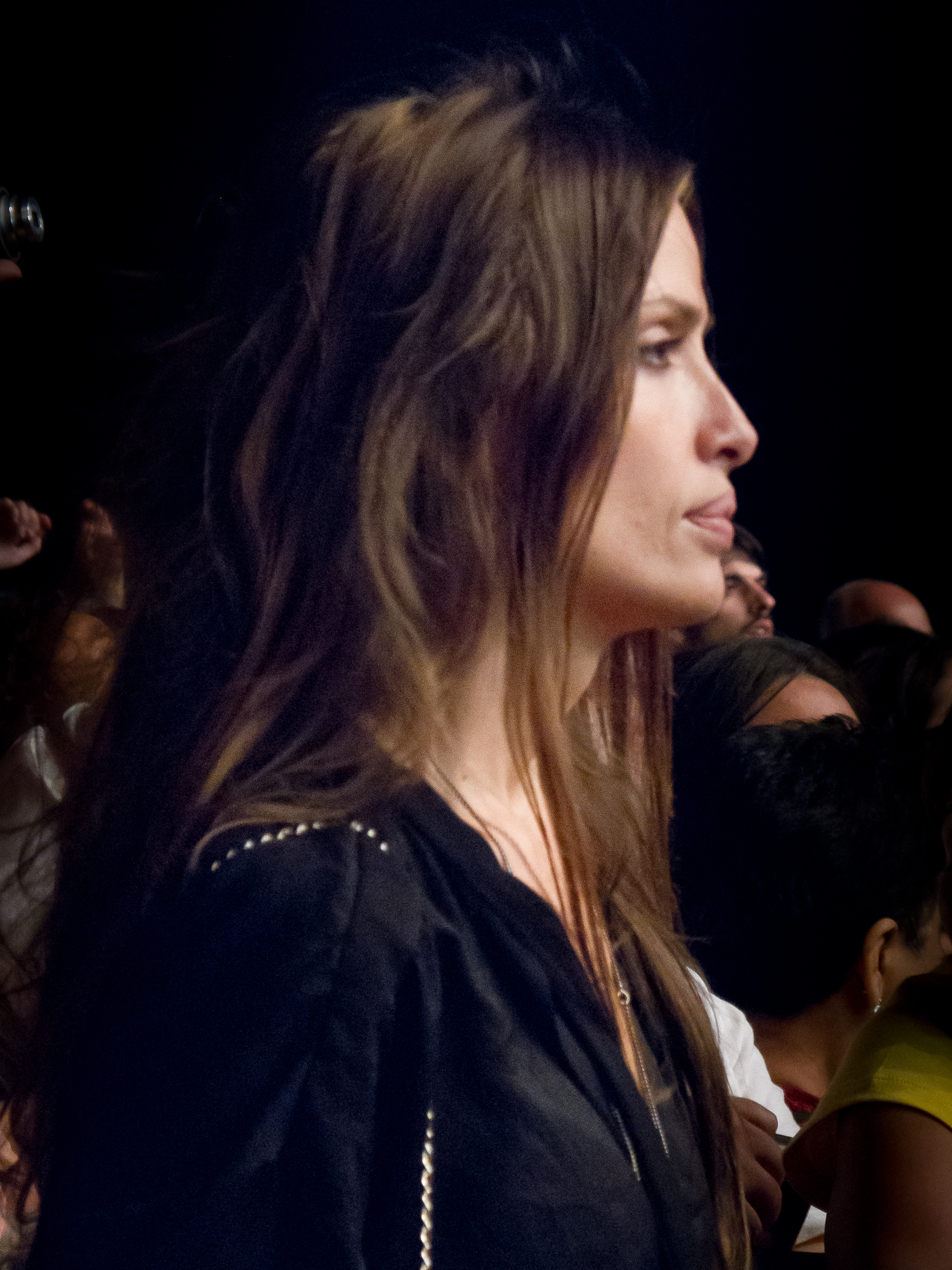 Spanish model Almudena Fernández